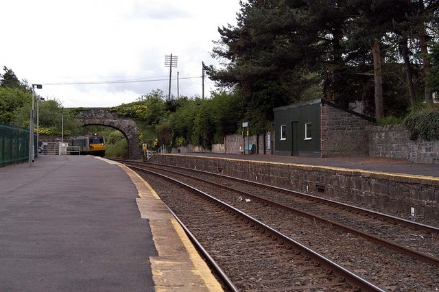 Scarva railway station Original description: Scarva Station A passenger train about to pass Scarva Station